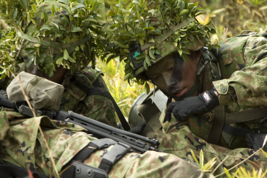 Riflemen from the Japanese Ground Self Defense Force practice first aid procedures on a simulated injured soldier during a medical evacuation demonstration at the Nihonbara Training Area, Japan, Nov. 12. Marines with the 31st Marine Expeditionary Unit teamed up with JGSDF soldiers for the training during Exercise Forest Light. (Photo by Lance Cpl. Kyle T. Ramirez).